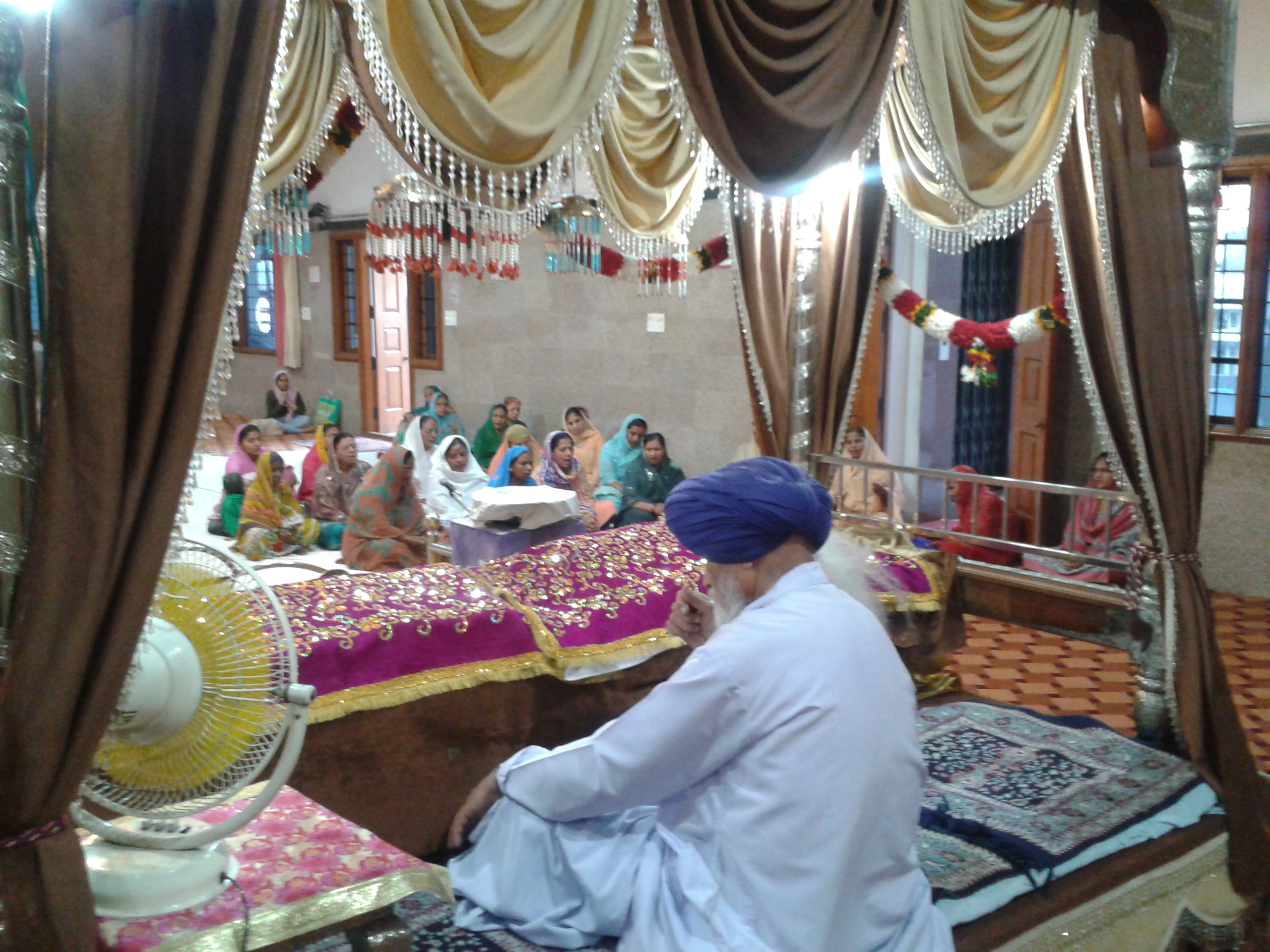 Gurdwara Ameerpet, Hyderabad: the ladies jatha organized week long Sukhmani Sahib Prayers in the Gurdwara for the well being of nature. And sangat brought ornamental plants in the overall Gurdwara premises.